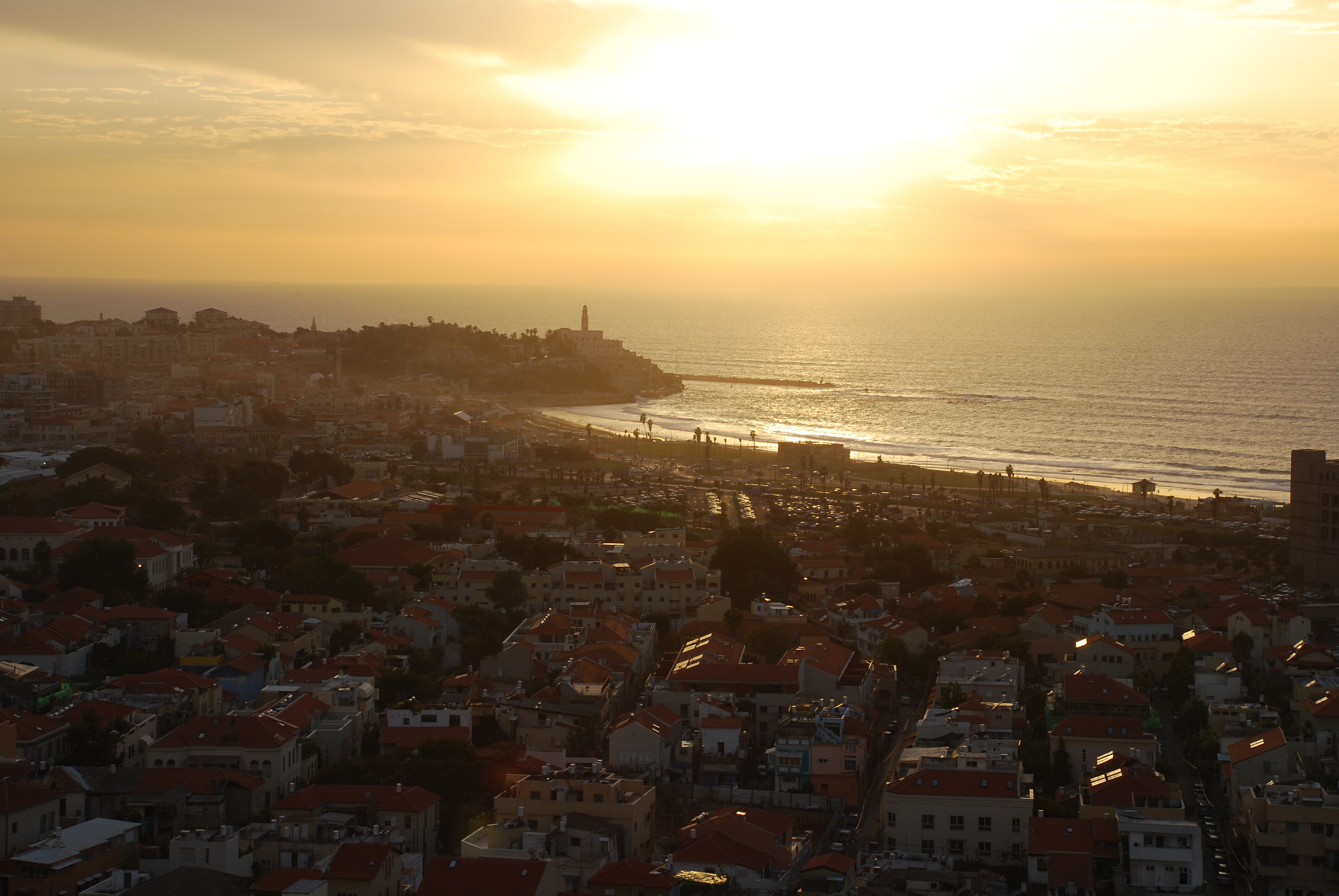 Neve Tzedek, Tel Aviv